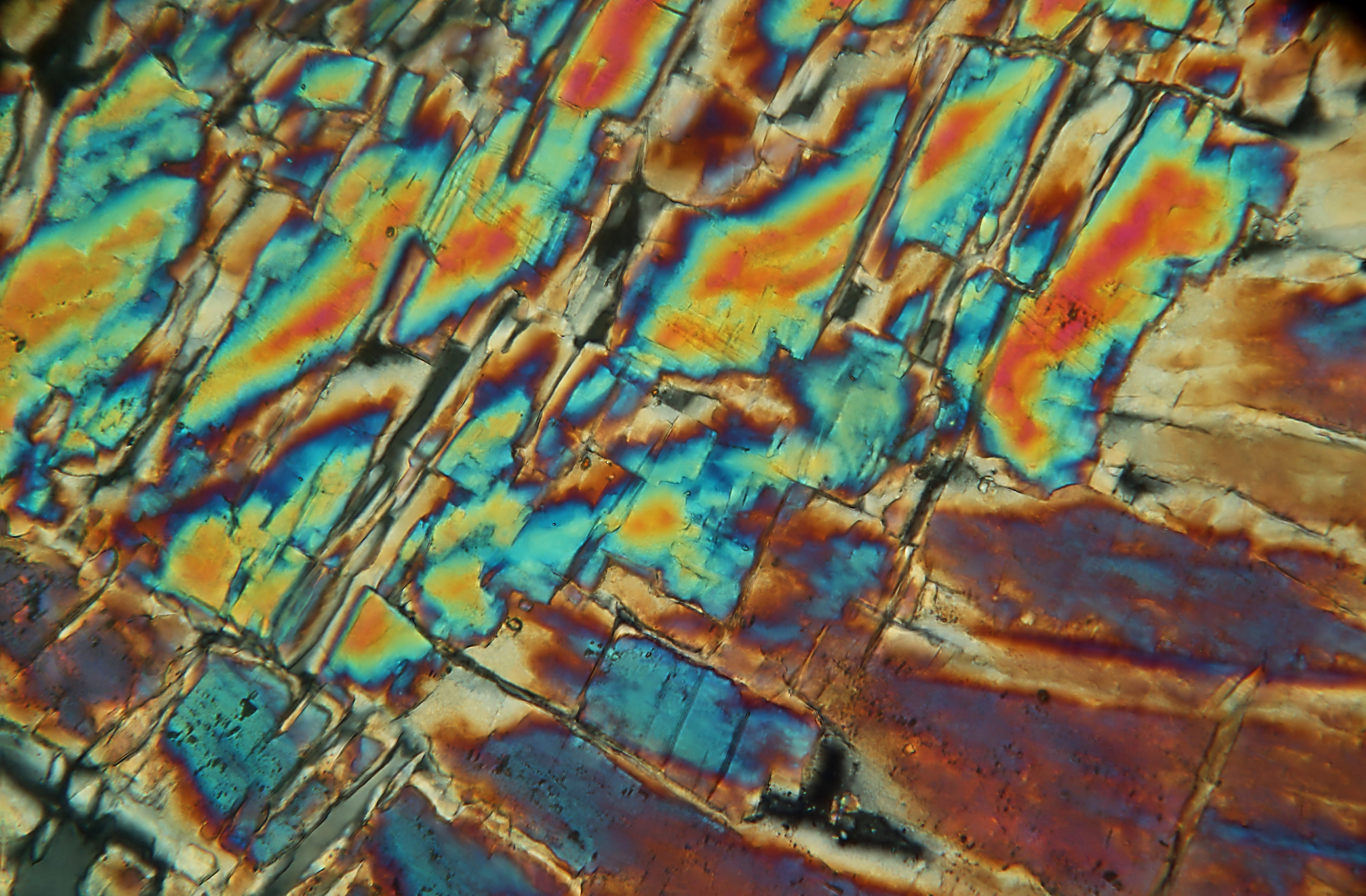 Light microscopic photograph (Leitz Laborlux 12 POL, NPL Fluotar 40/0.70 lens, Canon 600D-DSLR) of anhydrate crystals in a thin section of rock anhydrate, crossed niccols. Note the multiple interference colours, indicating a relatively high refraction index.